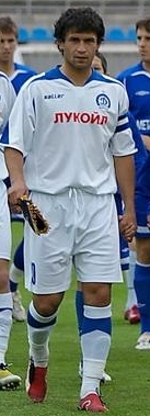 Syarhey Kislyak as a captain of FC Dinamo Minsk